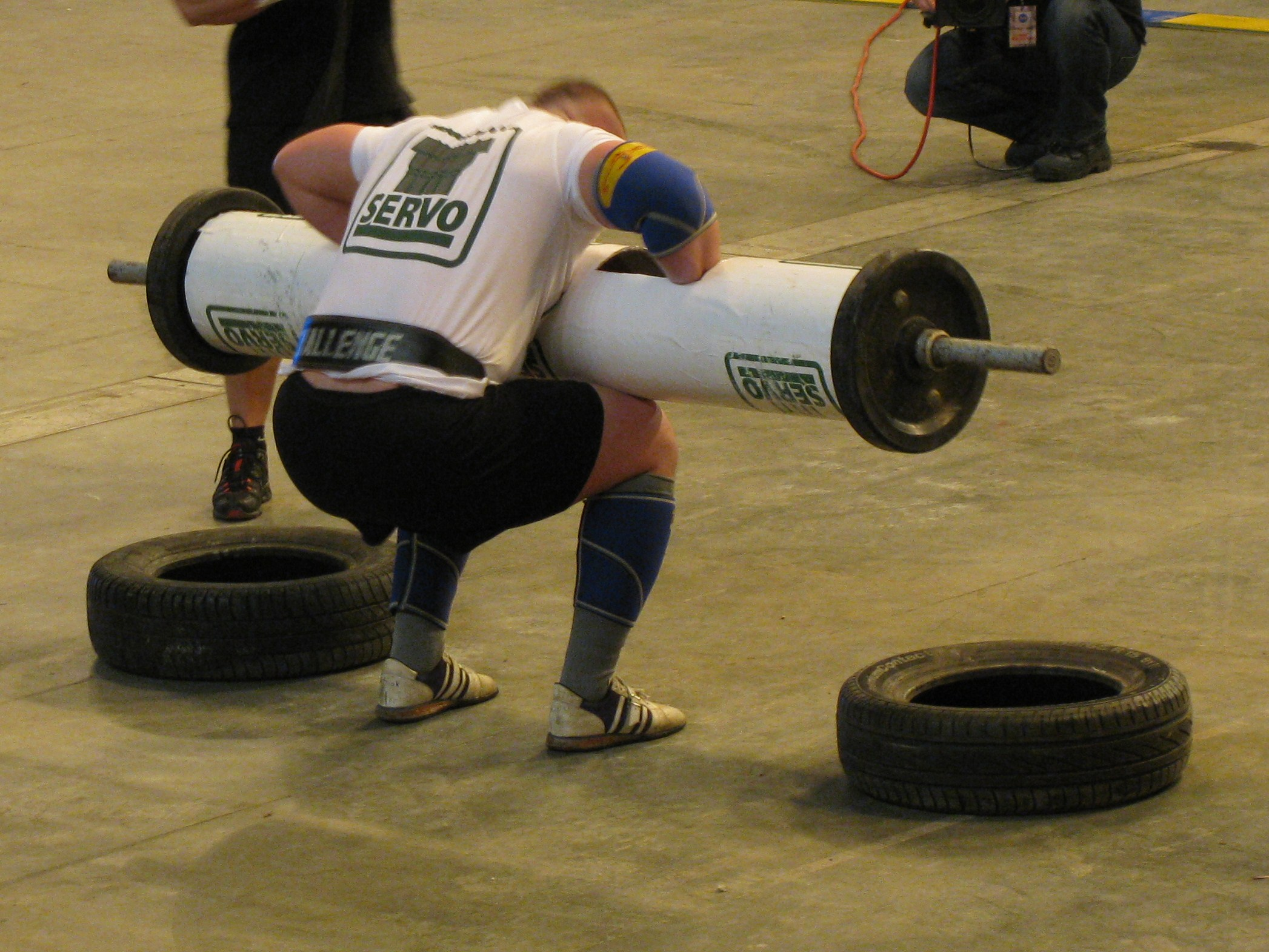 Strongmen event: the Log Lift